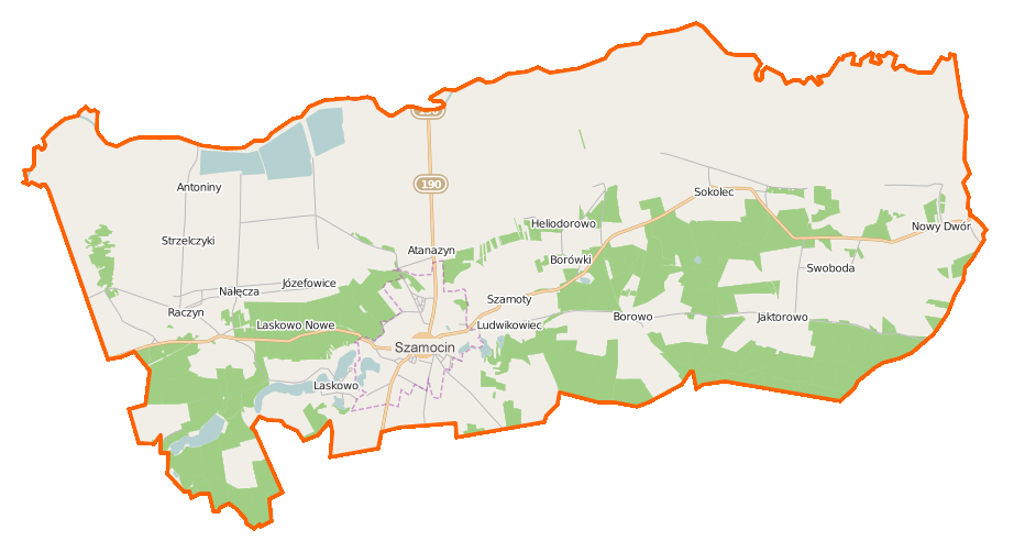 Map of Gmina Szamocin, Poland This map of Szamocin (gmina) was created from OpenStreetMap project data, collected by the community. This map may be incomplete, and may contain errors. Don't rely solely on it for navigation. Border coordinates53.094216.9910←↕→17.307952.9908